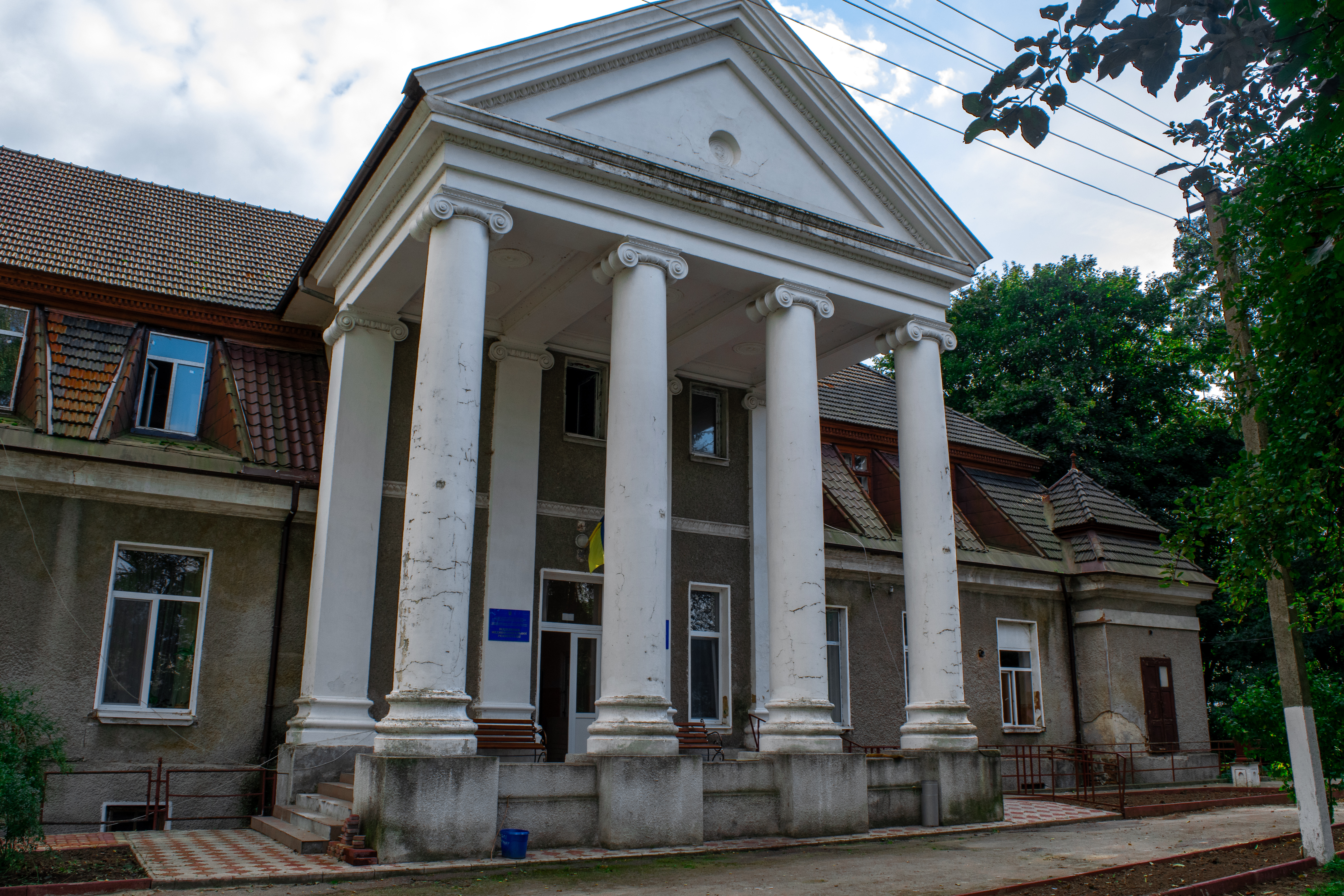 The main entrace to palace